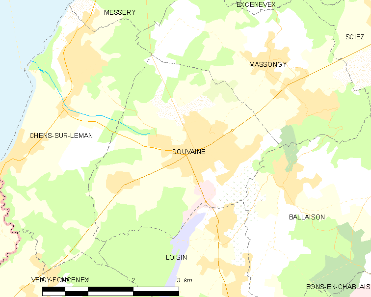 Map of French municipality Douvaine